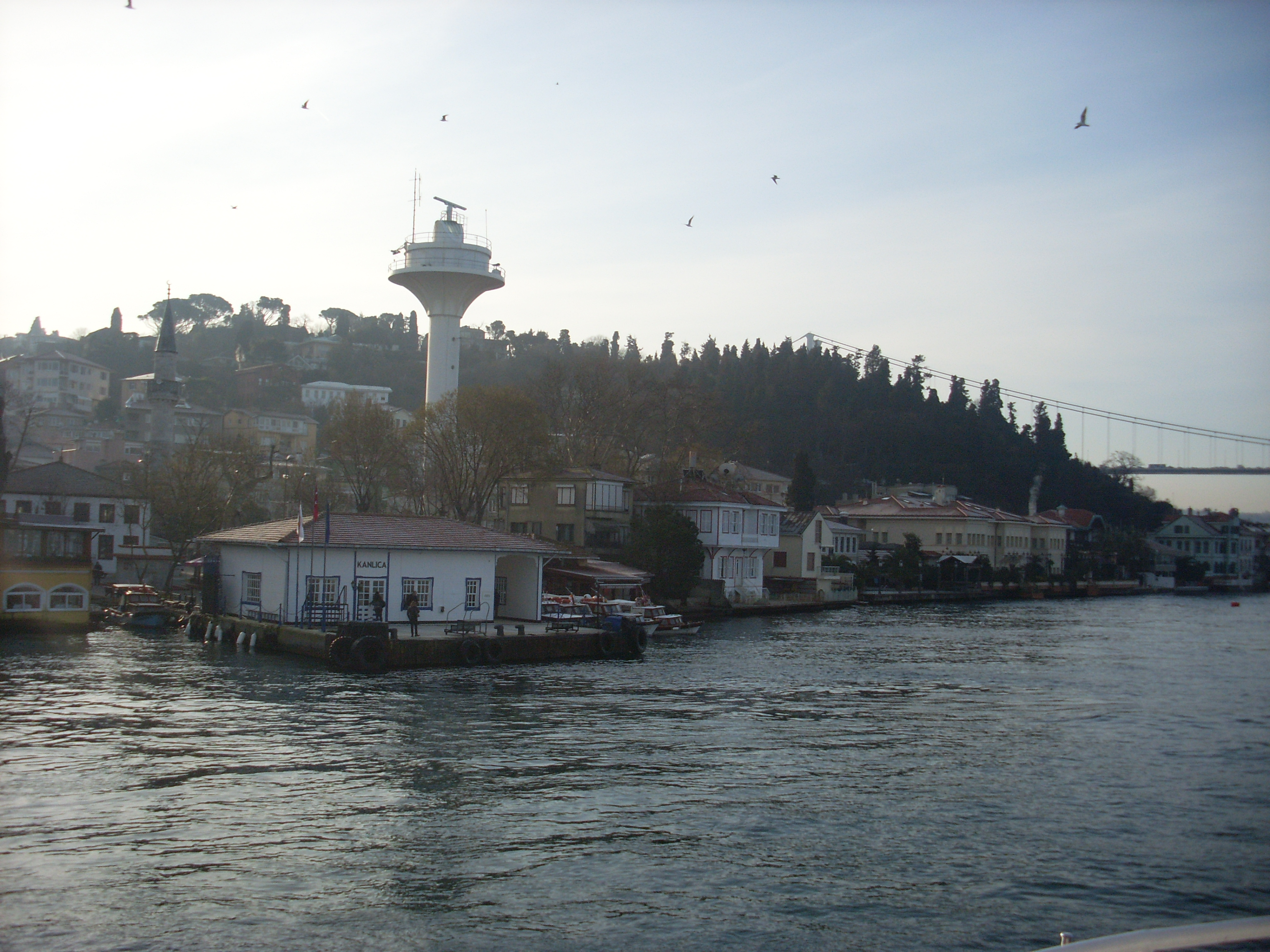 İstanbul - Kanlıca, Beykoz r1- feb 2013